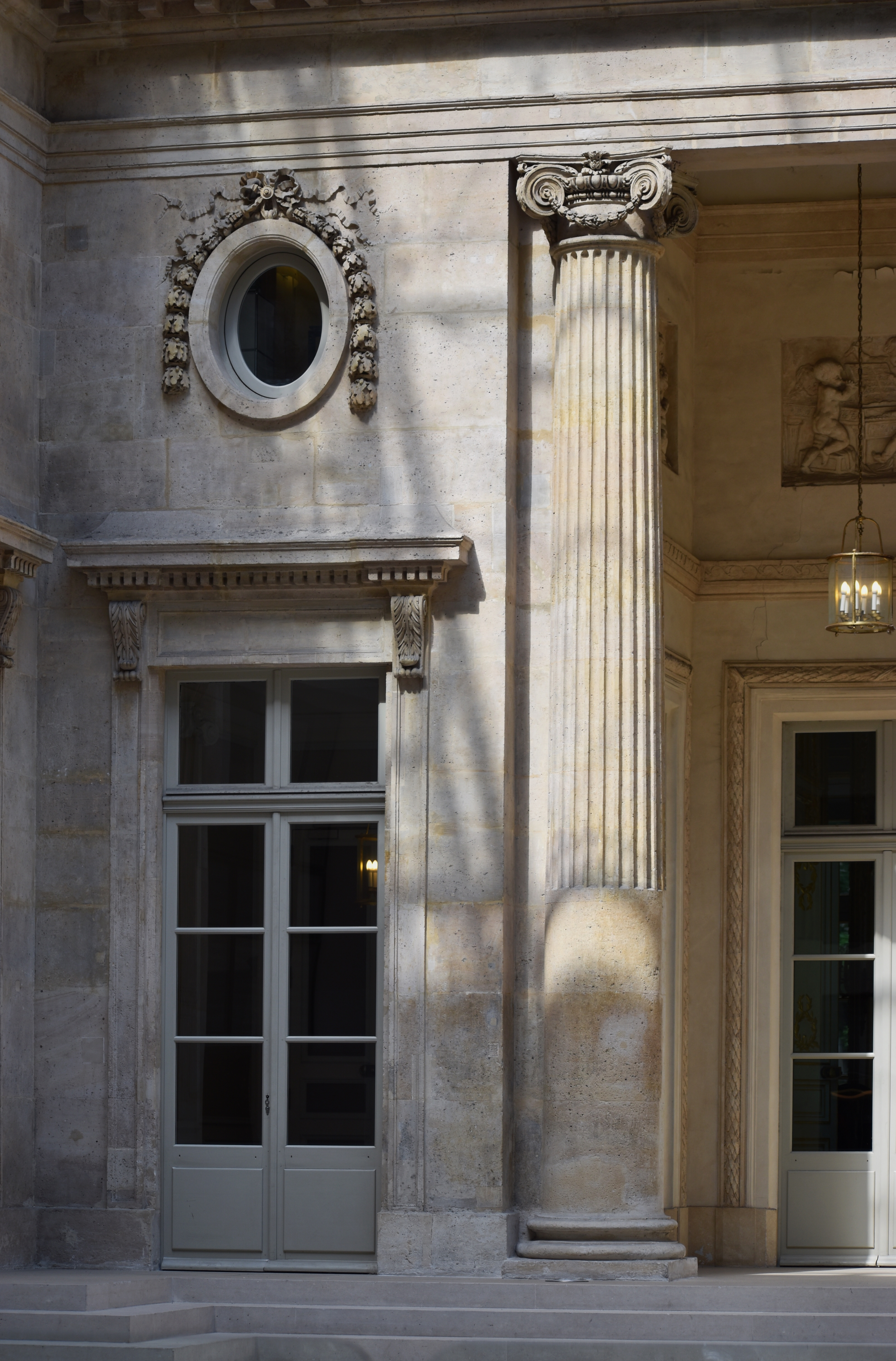 Hôtel Alexandre by Étienne-Louis Boullée